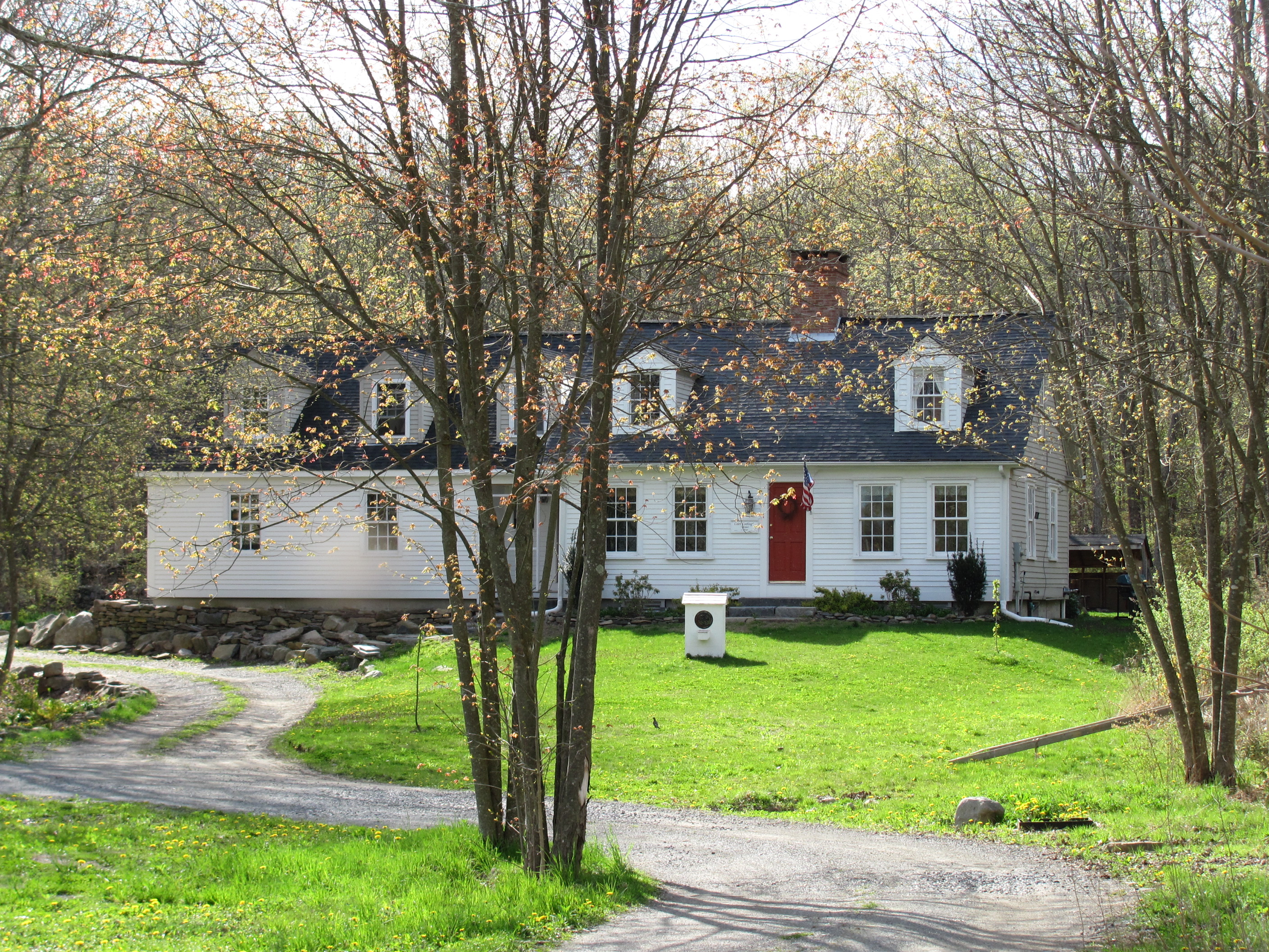 Federal-Greek Revival Cape house, next door to the Caleb Cushing House (and part of its National Register listing), Rehoboth Massachusetts